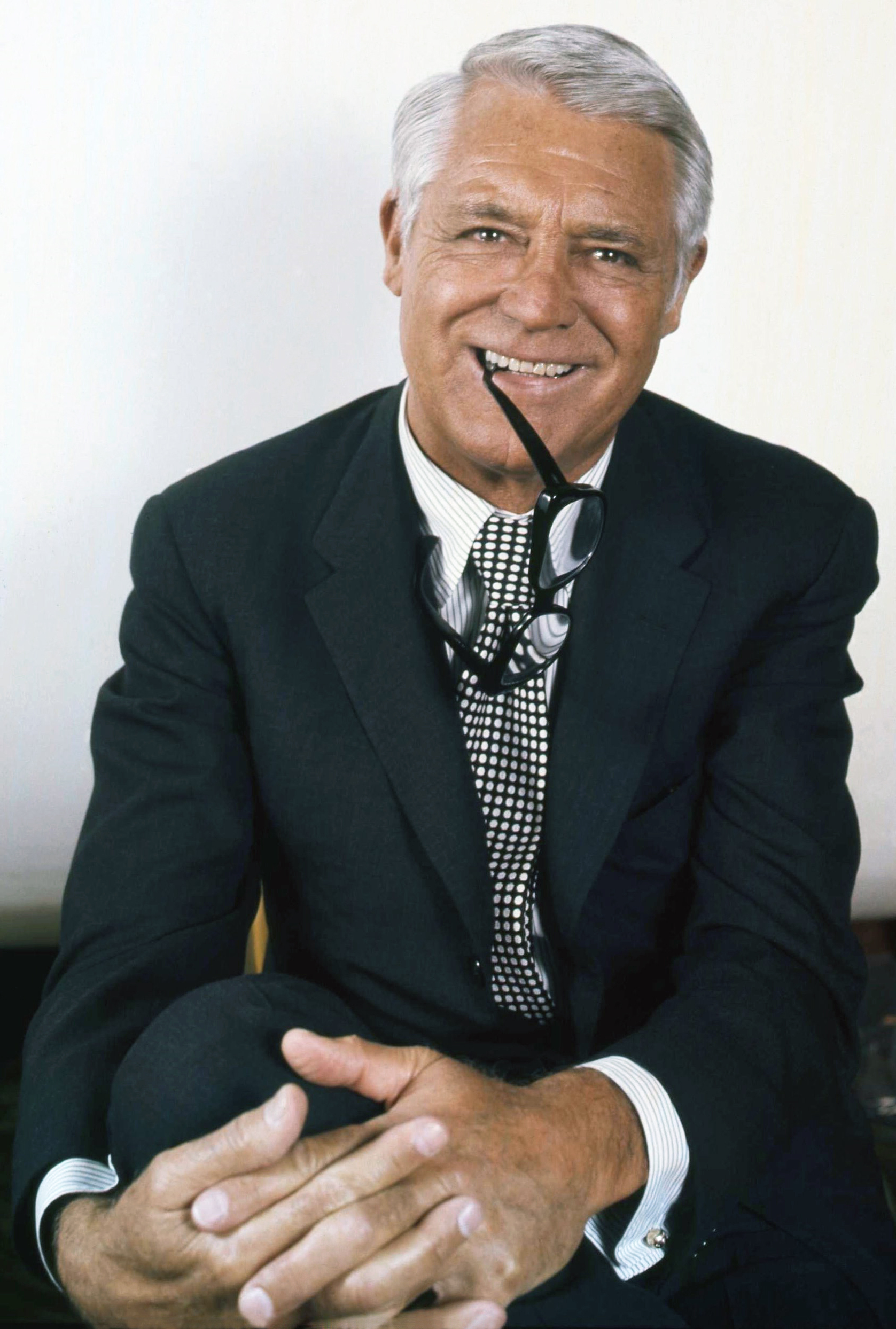 Portrait of Cary Grant chewing his glasses while posing in London